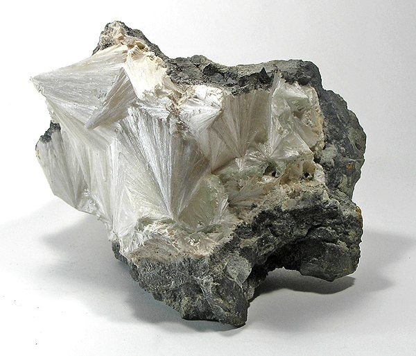 Pectolite Locality: Paterson, Passaic County, New Jersey, USA (Locality at ) A BIG, RICH specimen of old New Jersey pectolite - shimmering, radial sprays of acicular crystals in a solid vein 2 inches thick in the matrix! Ex Gary Hansen collection 11.1 x 10.1 x 9.1cm